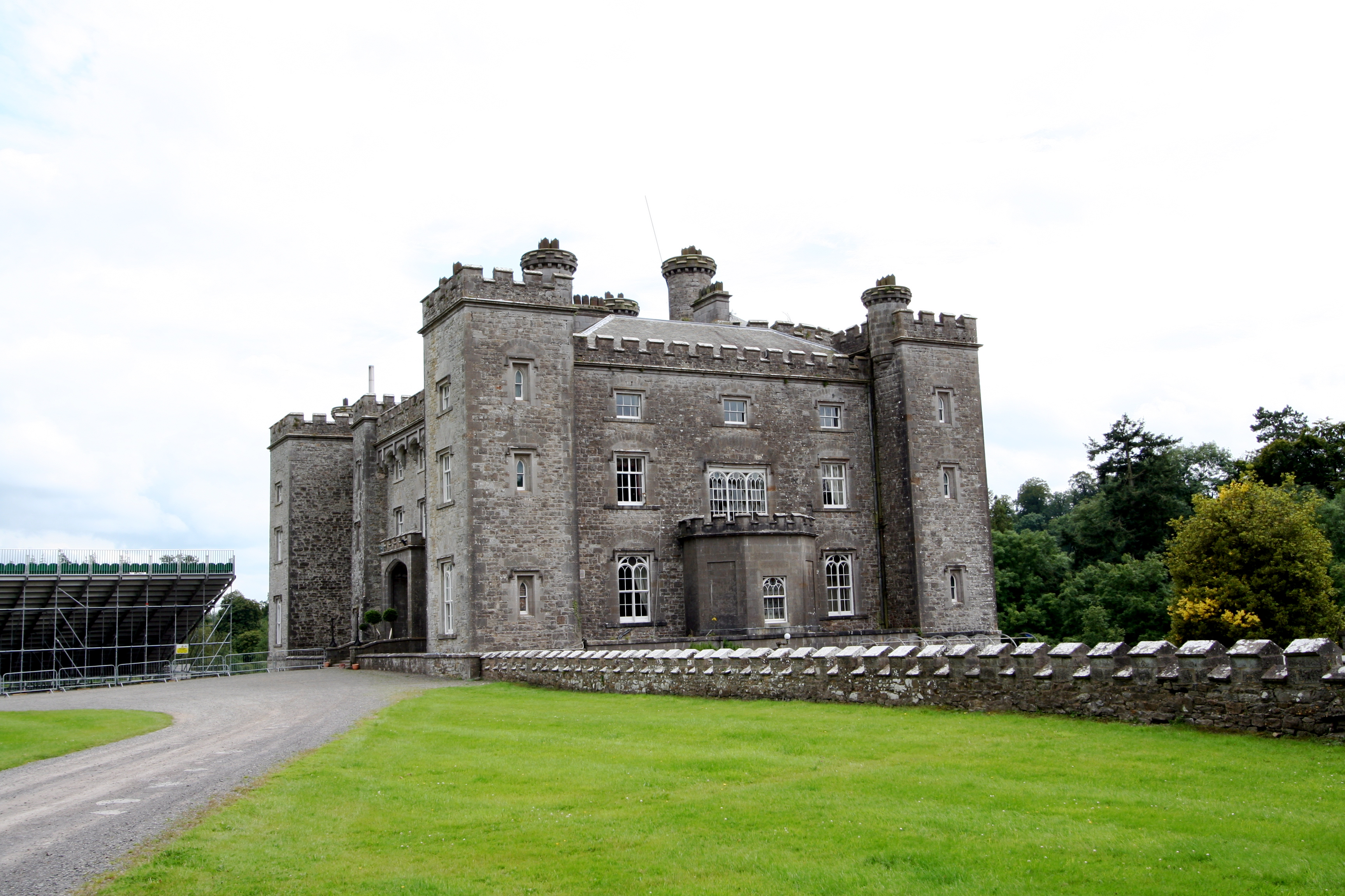 Slane Castle